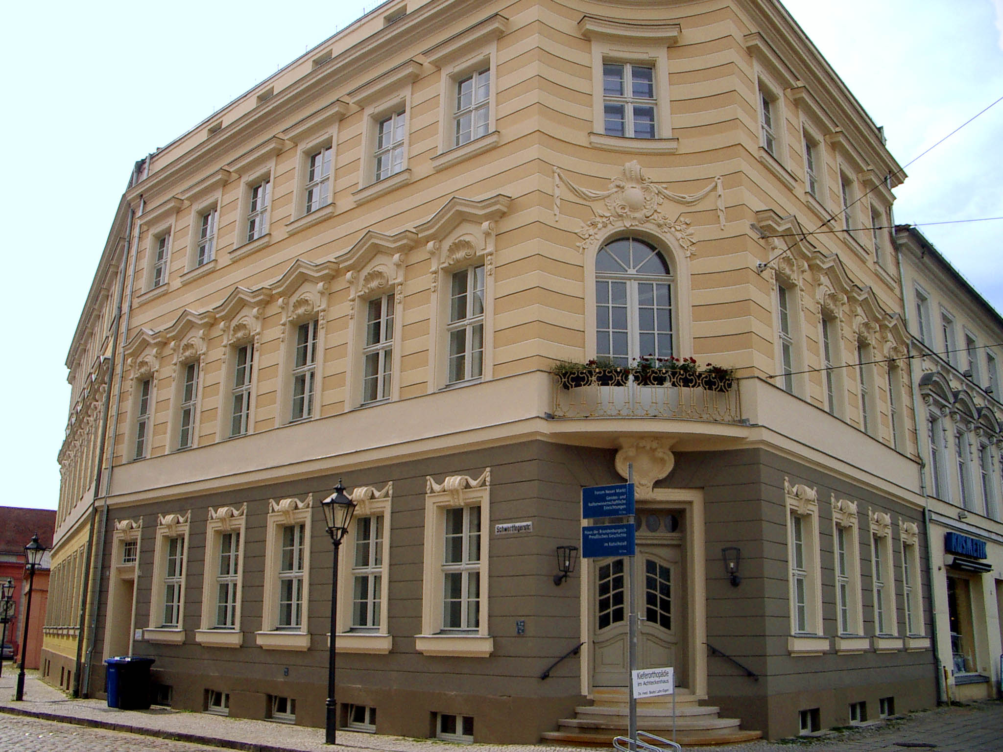 The single remaining bulding of the 'eight corners' in Potsdam, Germany. Originally there were four of these houses.